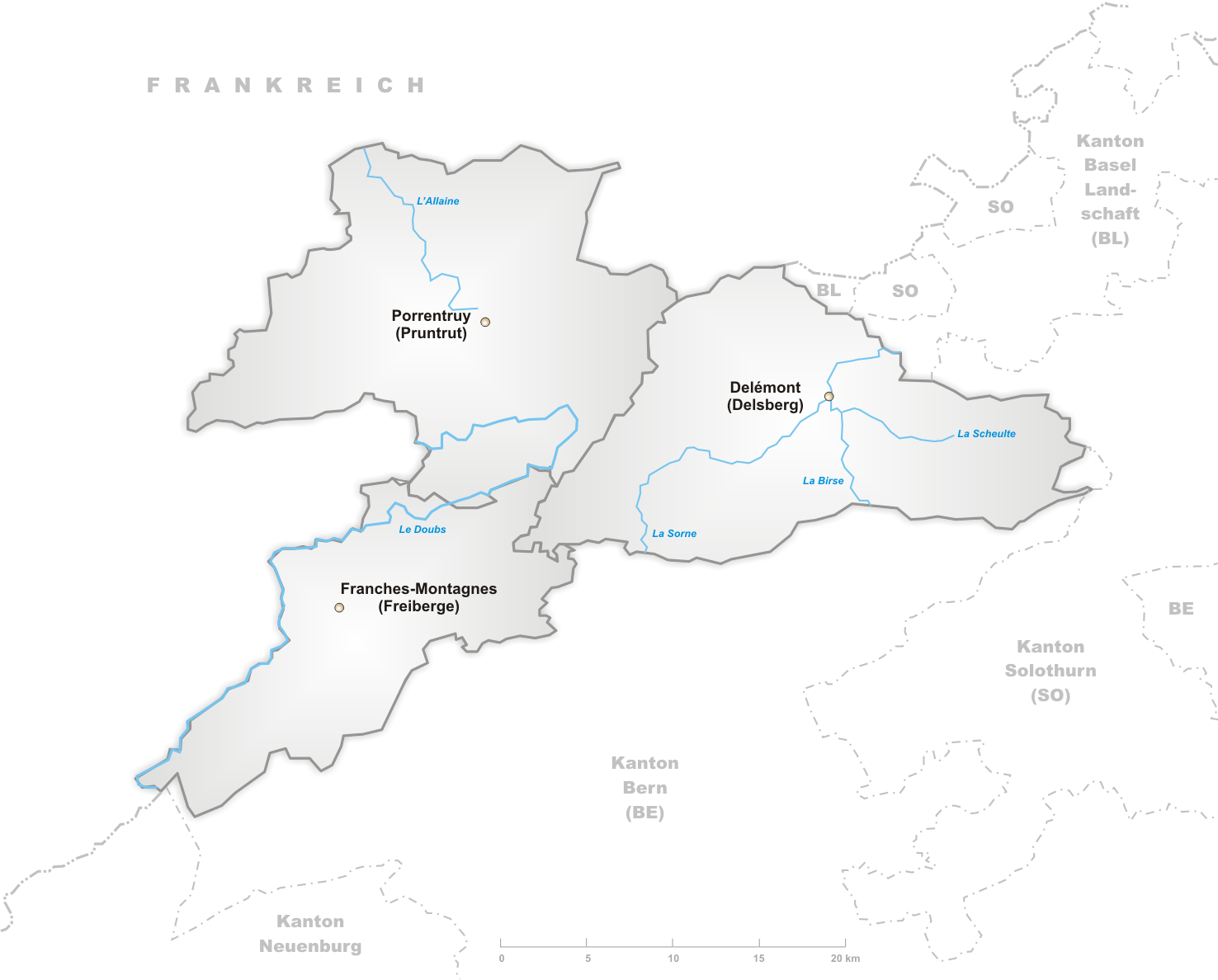 Map of Jura districts to 2009